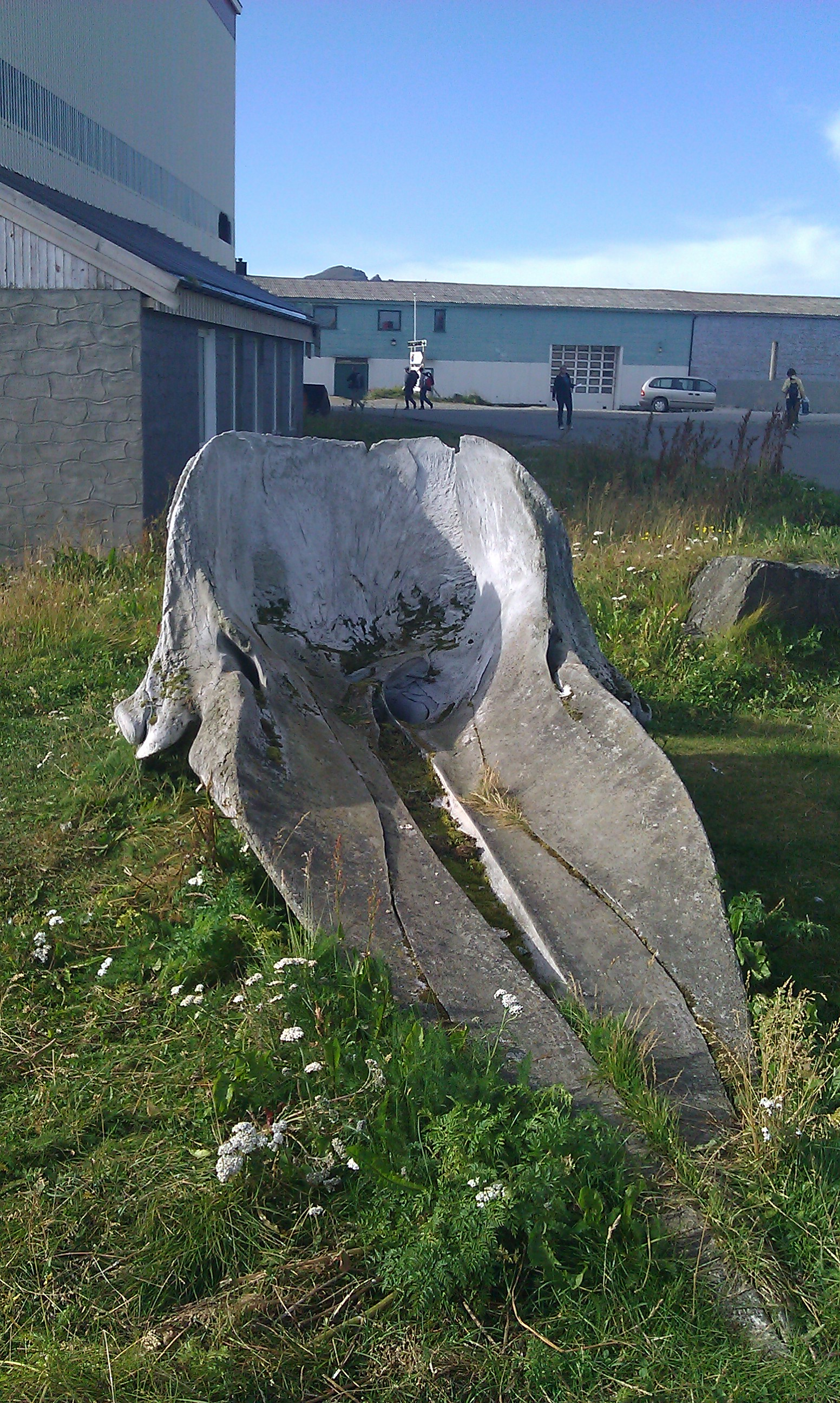 spermwhale (cachalot) skull in Andenes, Norway